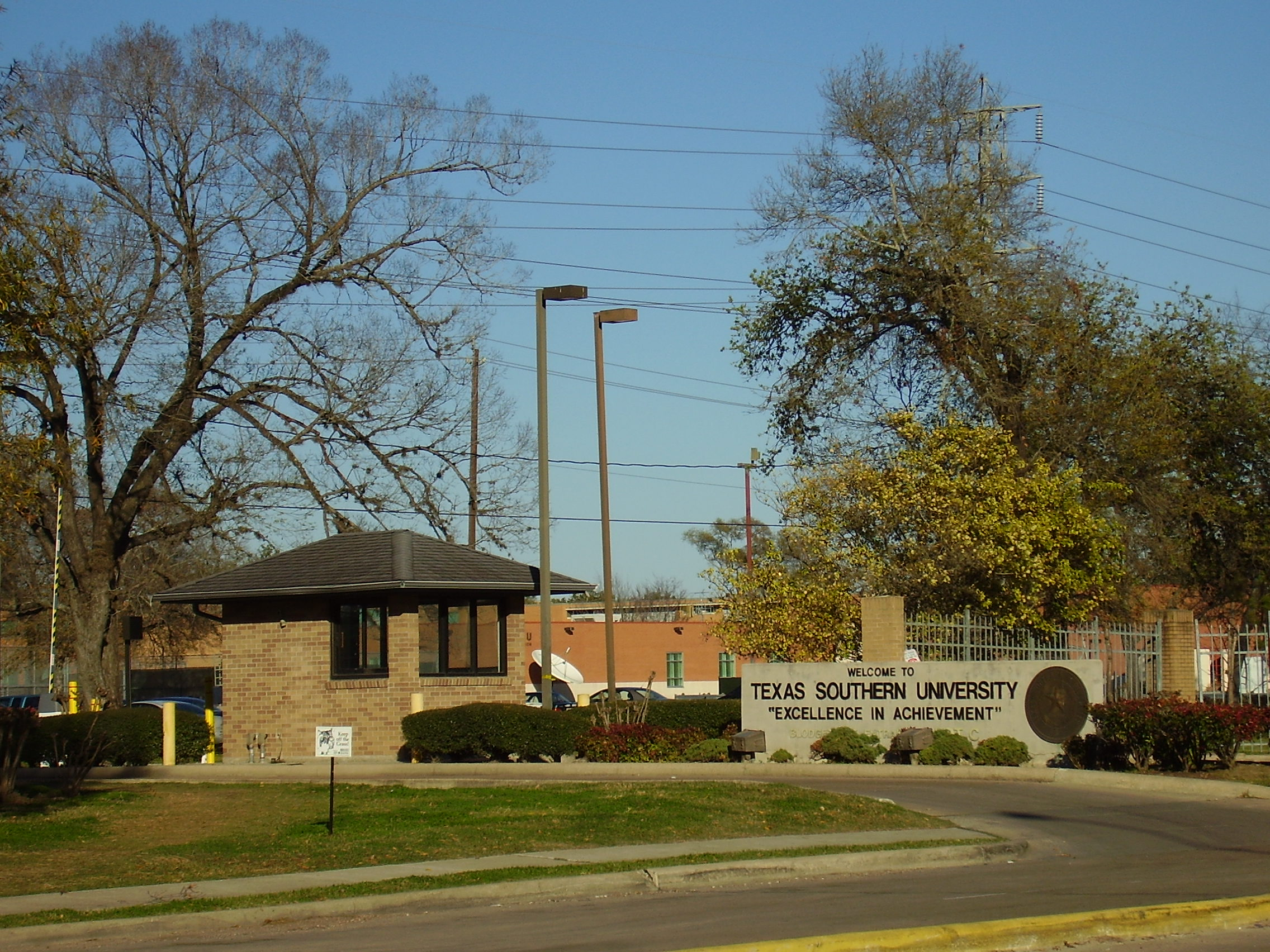 Taken by WhisperToMe